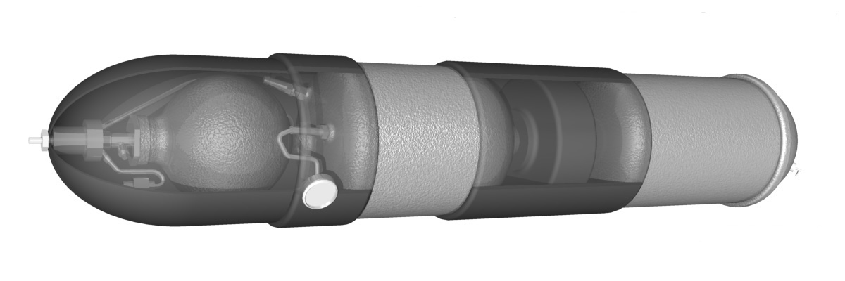 Aggregate-2 - german rocket